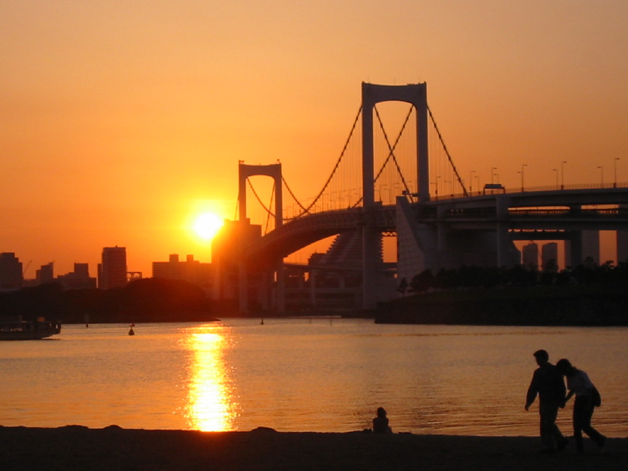 The sun sets over Tokyo as seen form the beach at Odaiba.